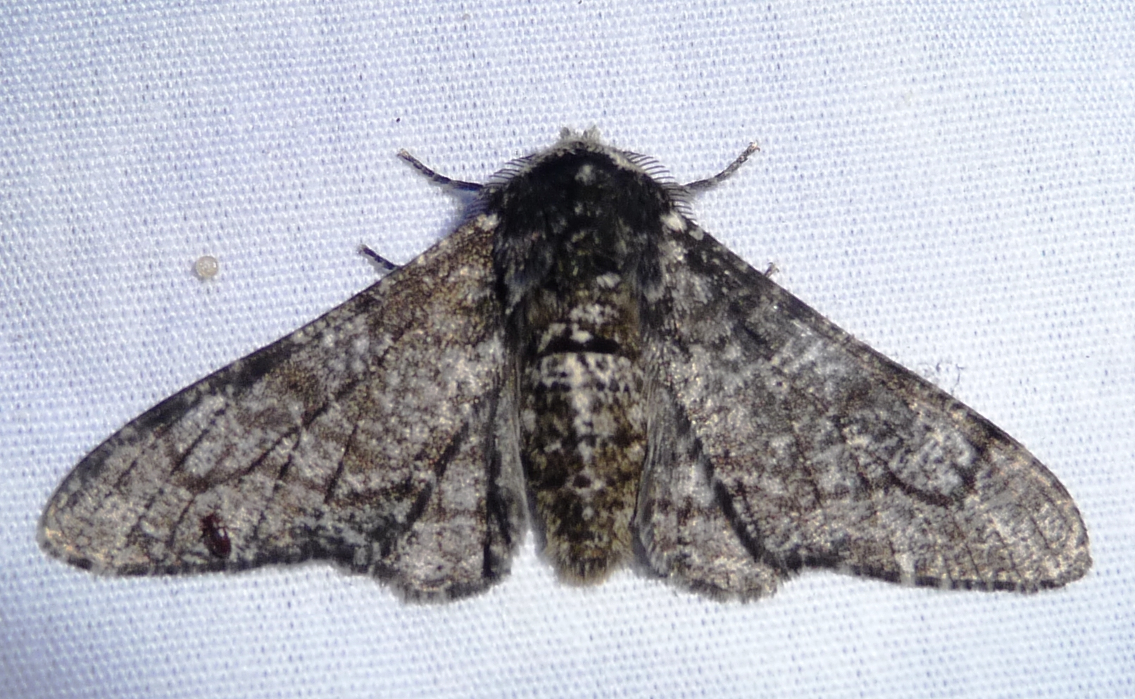 Biston betularia male at Rocky Gap State Park, MD, USA